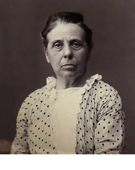 1916 U.S. Passport photograph